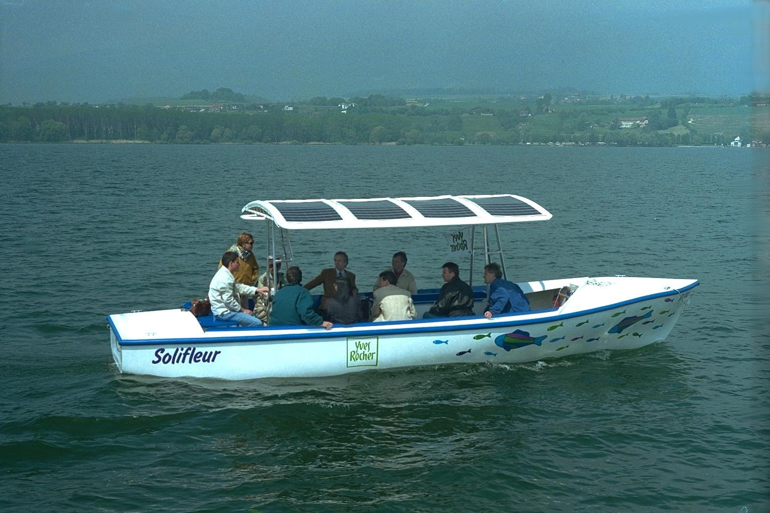 Solifleur, first passenger solar boat, built by Mark Wüst, MW-Line, in Switzerland